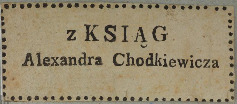 Aleksander Chodkiewicz's exlibris